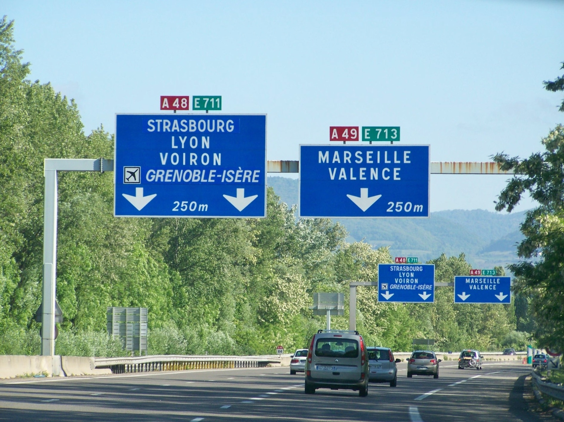 Interchange of French motorways A48 to Lyon and A49 to Valence when leaving city of Grenoble in Isère.